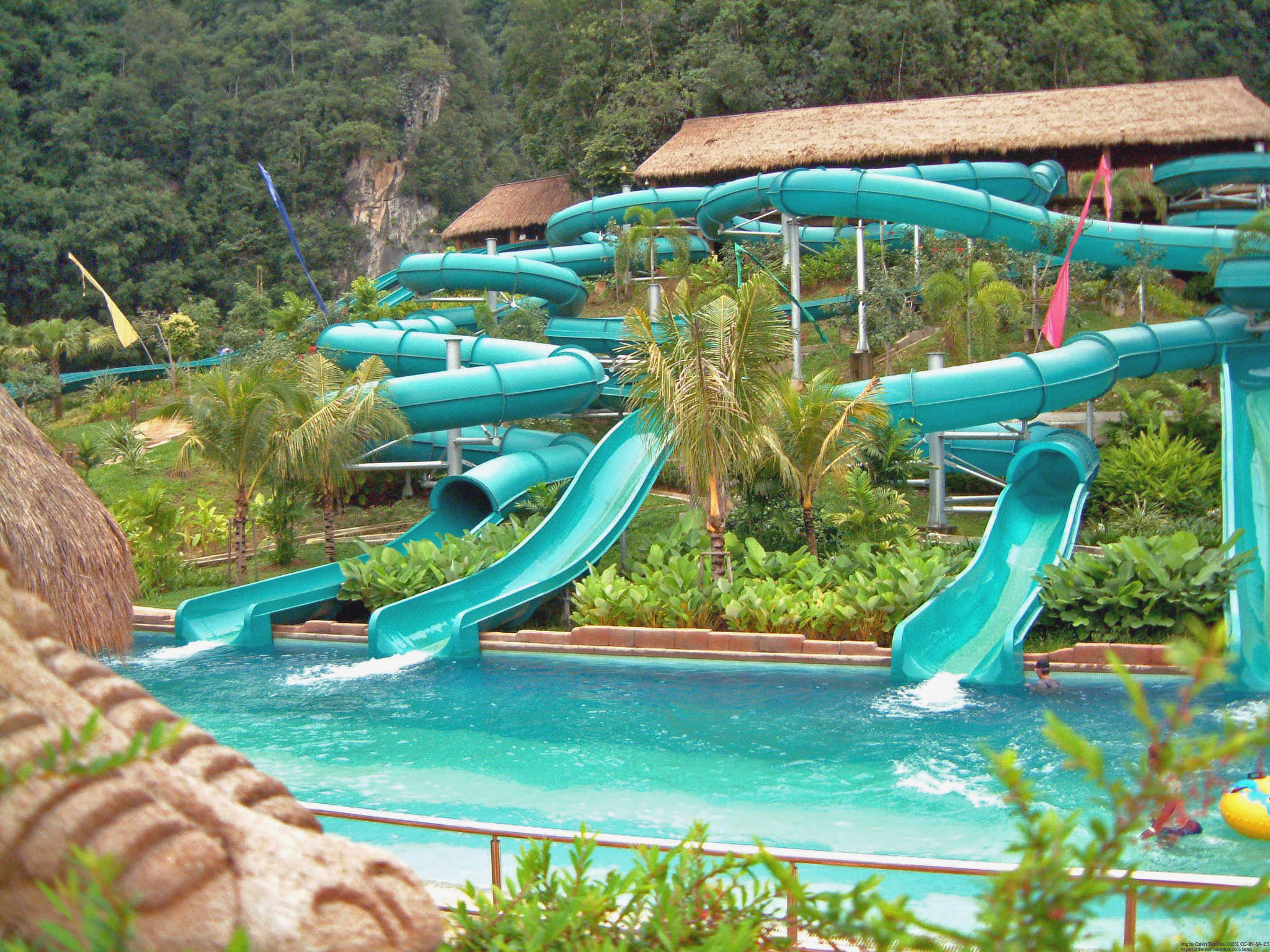 Lost World of Tambun water theme park, where one would enjoy a fun-filled day of water activities and amusement park rides. Img by Calvin Teo, November 2005